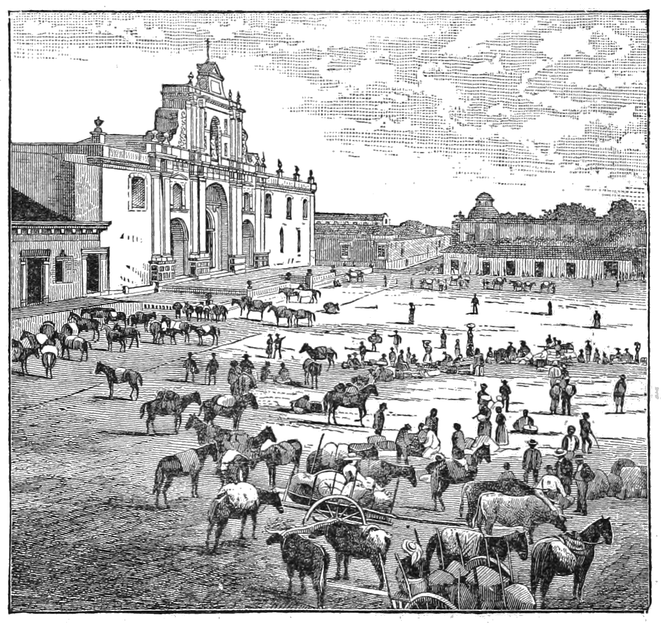 The Plaza, Old Guatemala